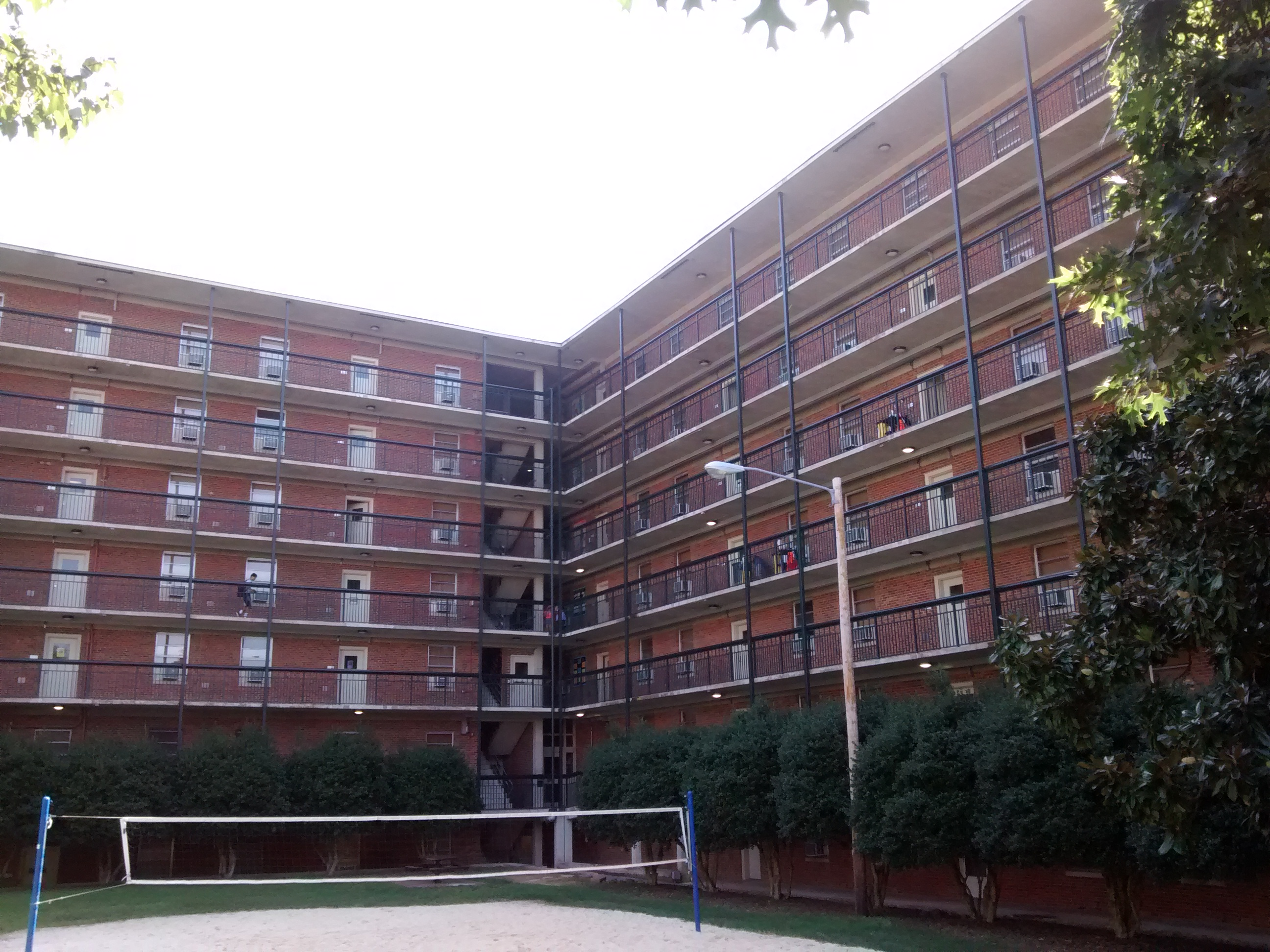 Craige Residence Hall at the University of North Carolina at Chapel Hill.